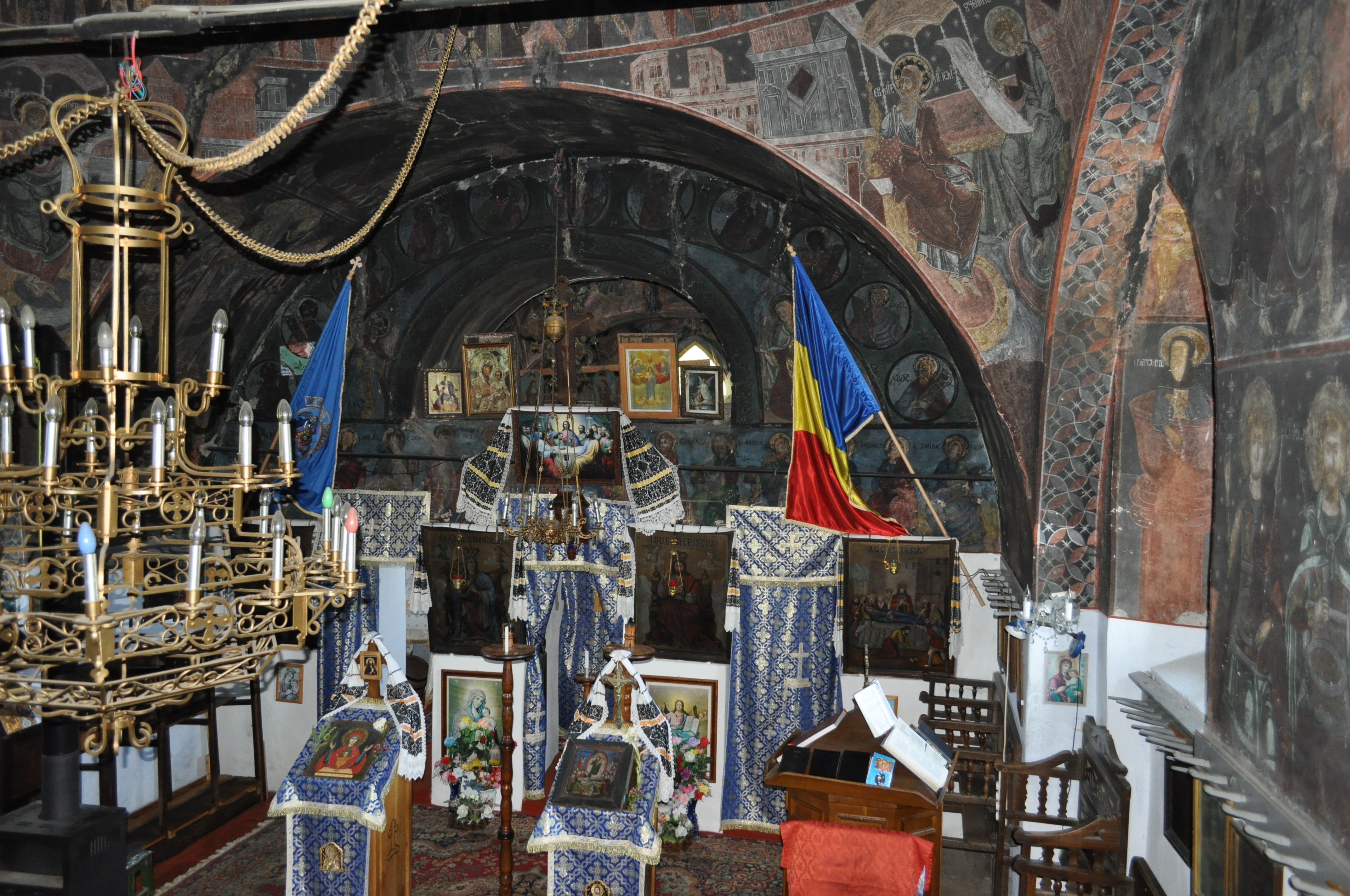 The old orthodox church „Dormition of the Theotokos” in Săsăuș, Sibiu county, Romania